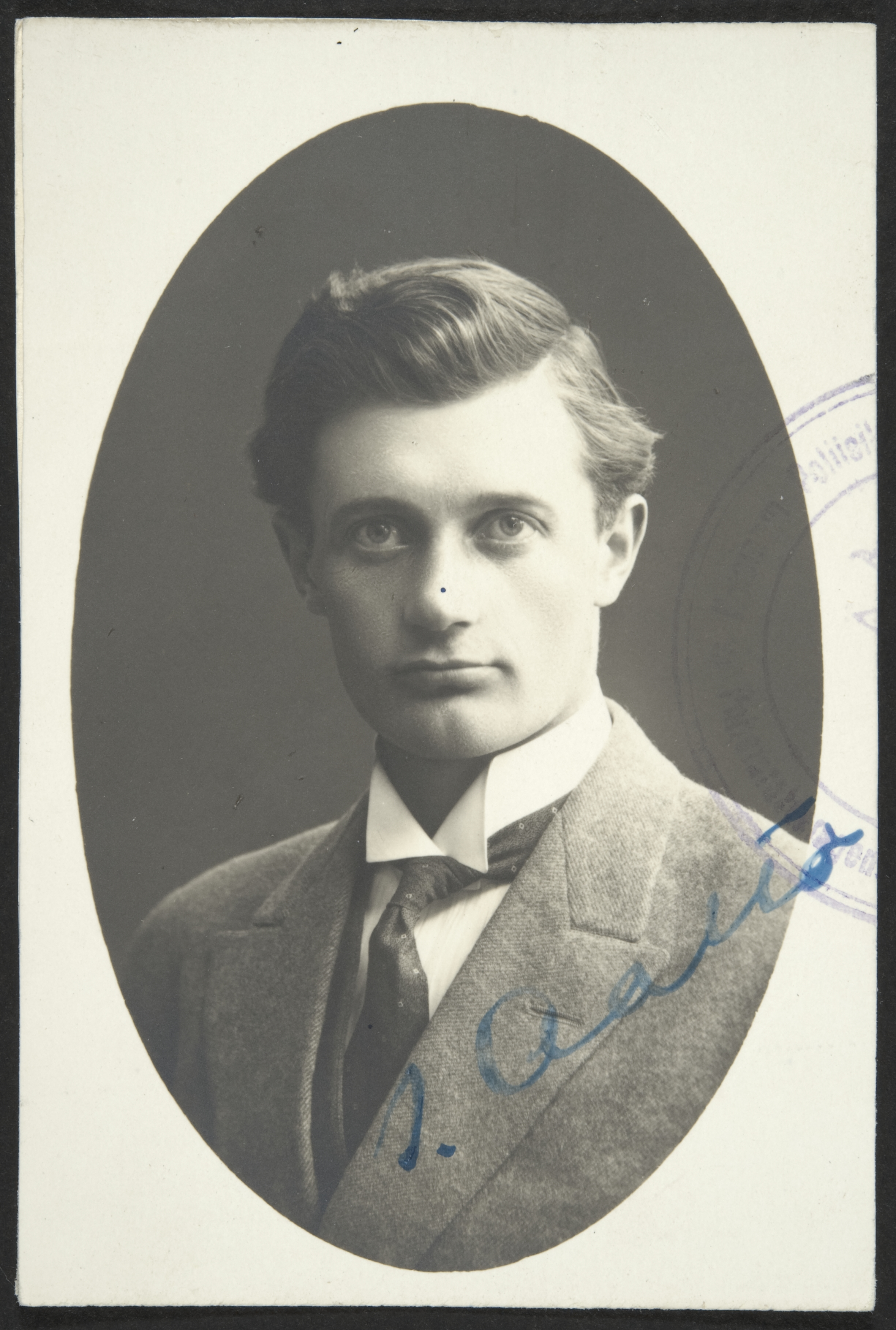 Subject painter Ilmari Aalto Topic for further information Passport photo Subject time n 1920? Image Type photograph Preparation time n 1920? Features Black and White, Vertical, 9 x 6 cm The persons Ilmari Aalto Museum National Board of Antiquities Collections Collection History photo collection Keywords neckties , painters , artists Markings The police department stamp (entry description) Labeling (Labelling technology) picture of the middle part, right. (The label location) stamp (entry type) writing (Labelling technology) picture of the lower part, on the right. (The label location) I. Wave (the contents of the label), writing (subscription type) writing (Labelling technology) flip side, glued to the back of the photo paper, which is cut from a bigger (form) (Location of that marking) The artist Ilmari Aalto p. 7/8 1891 (the contents of the label), writing (entry type)